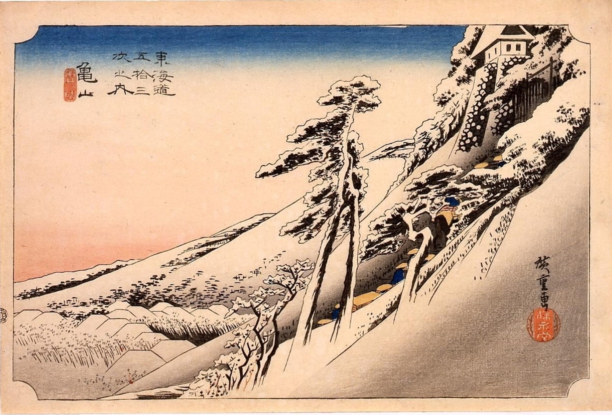 Station Kameyama, „Clear Weather after Snow“ (yukibare, 雪晴; variant a; publisher seal Hoeidō (保永堂)